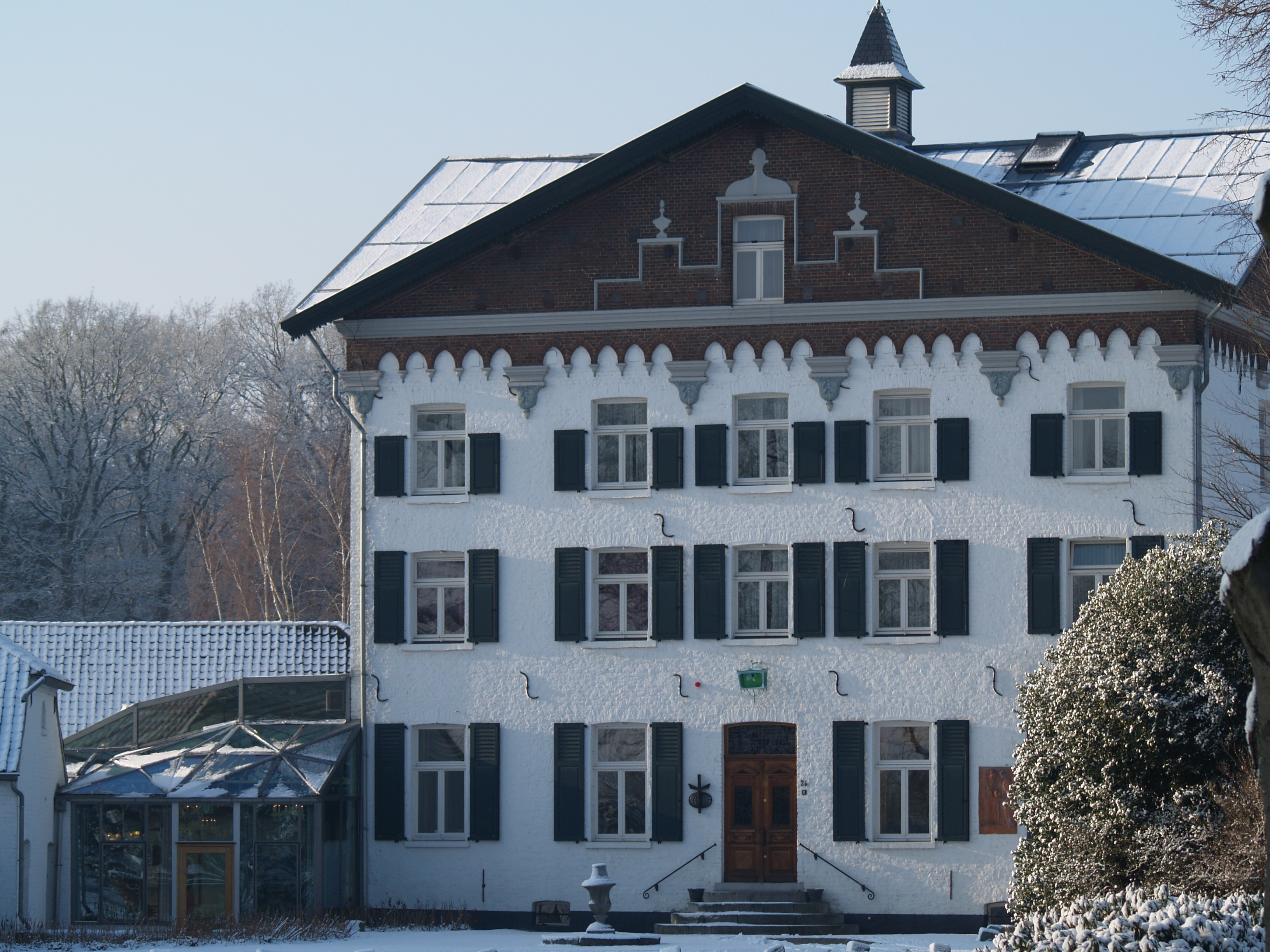 Castle De Raay, Baarlo